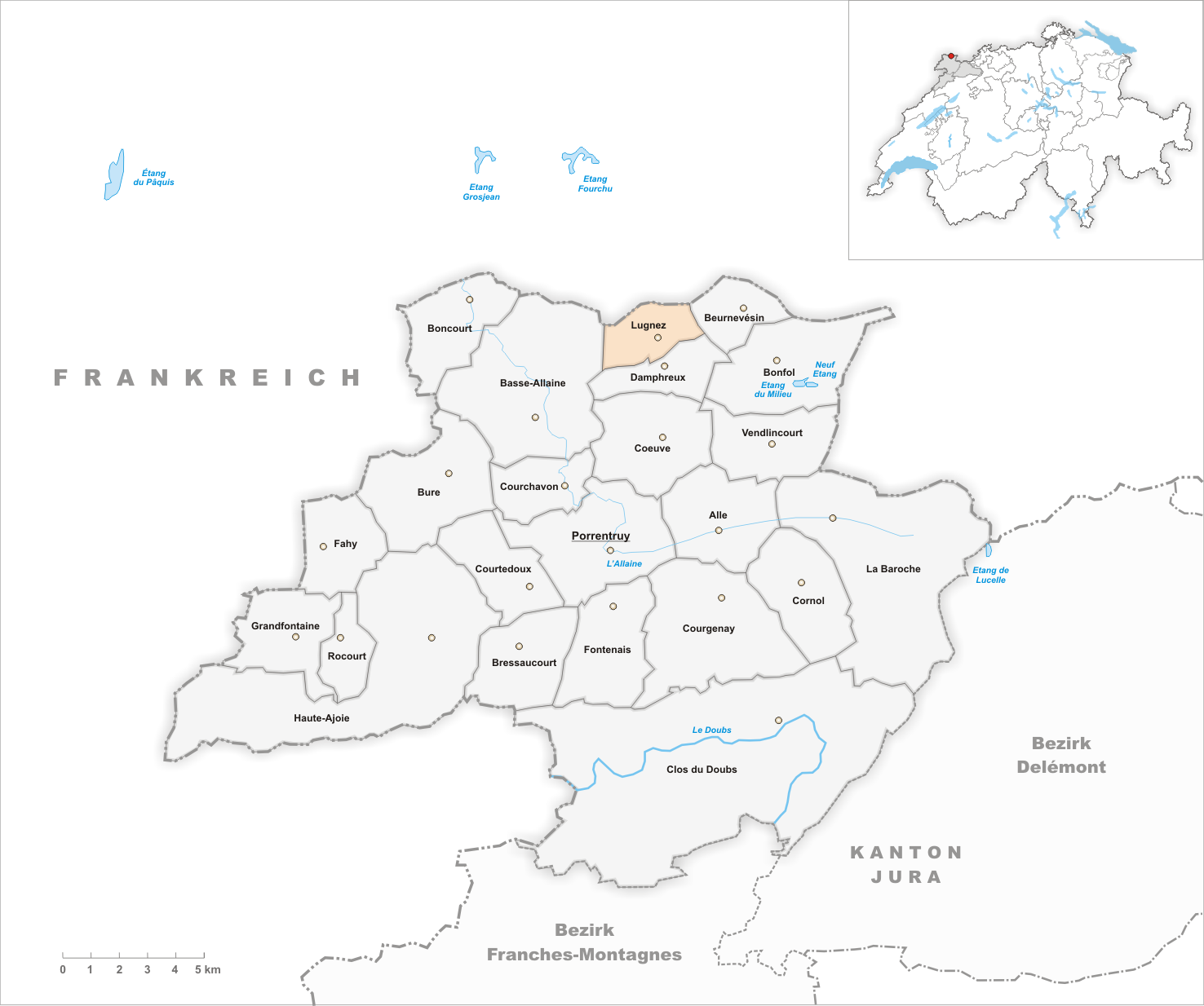 Municipality Lugnez